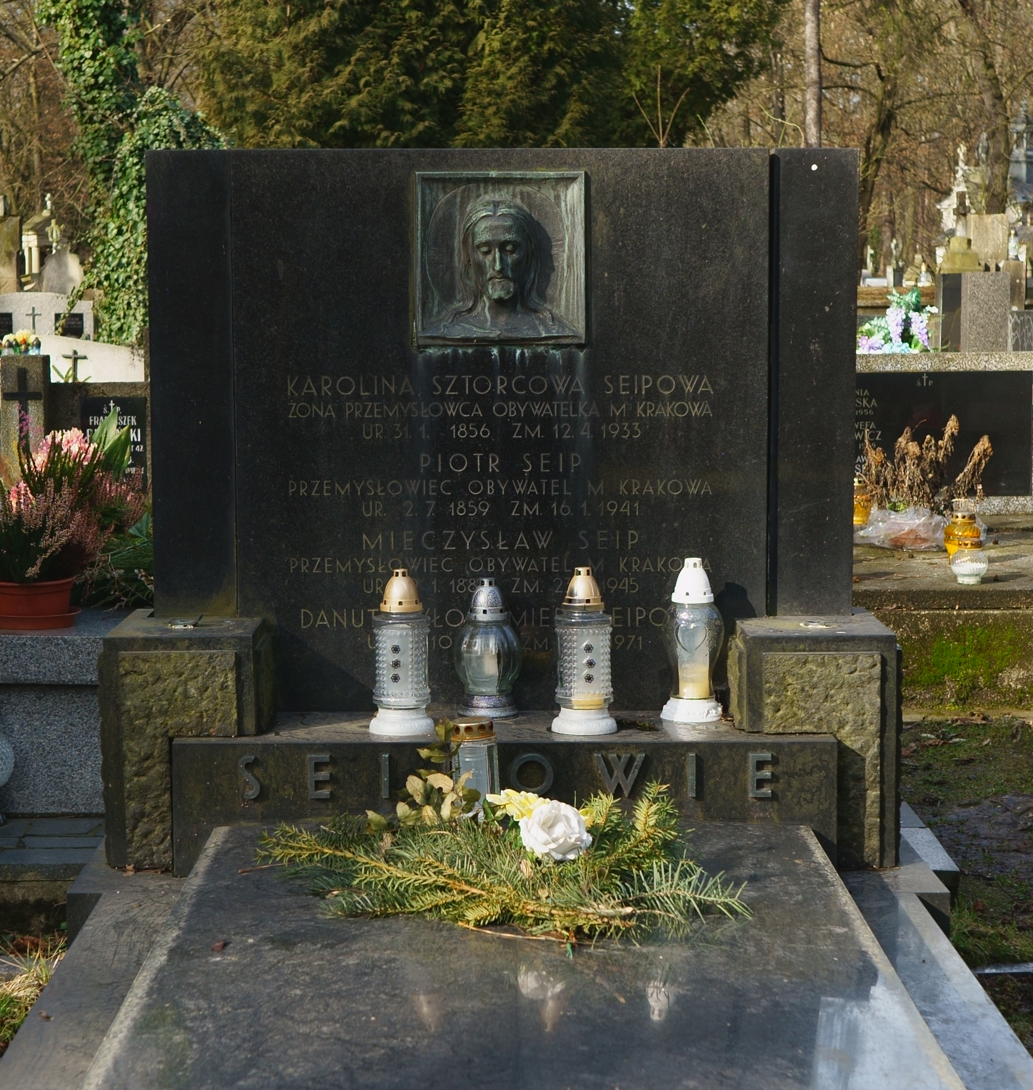 Cracow. Rakowice Cemetery. Piotr Wisz grave.